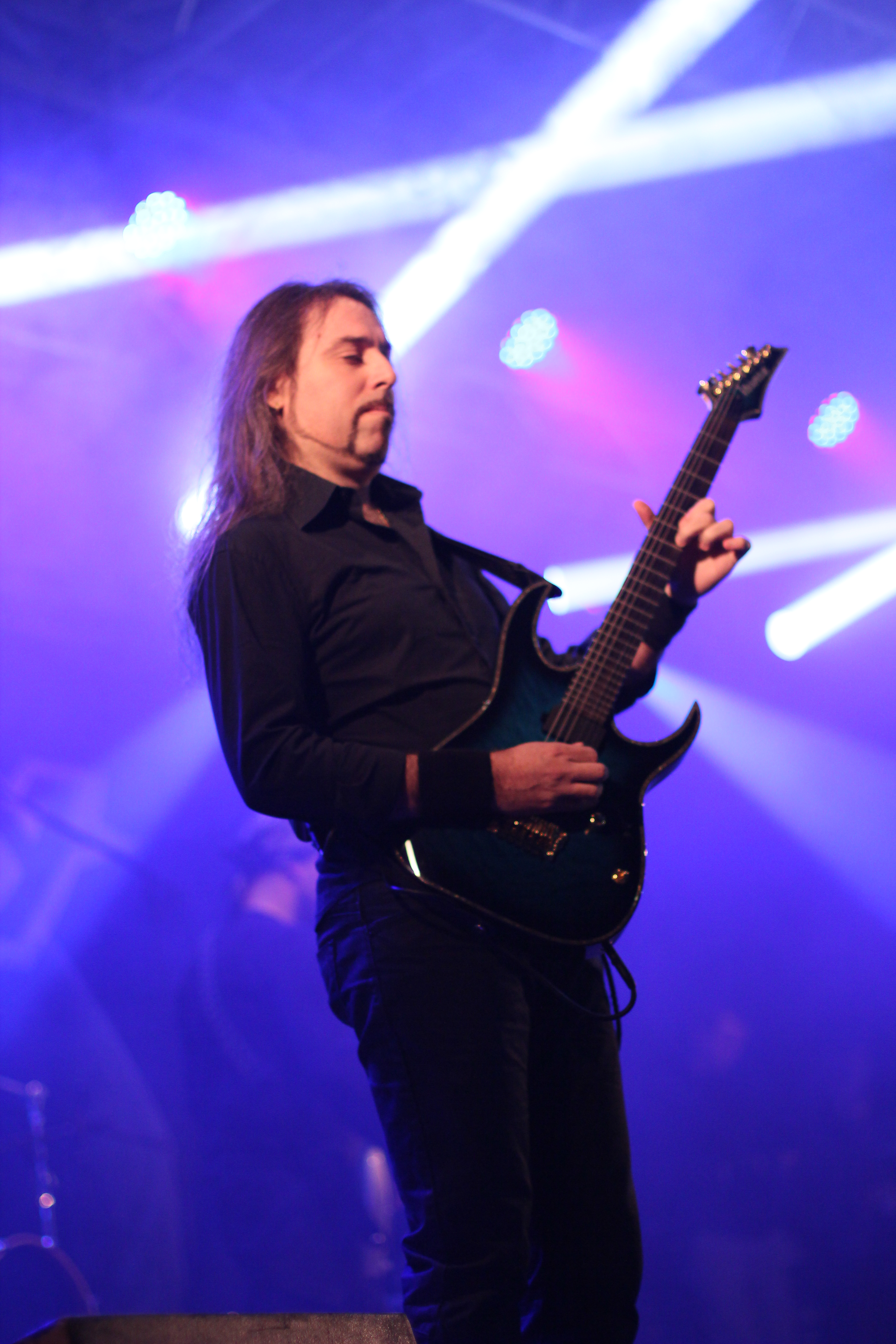 The Italian power metal band Rhapsody of Fire at the Rockharz Open Air 2014 in Ballenstedt/Germany